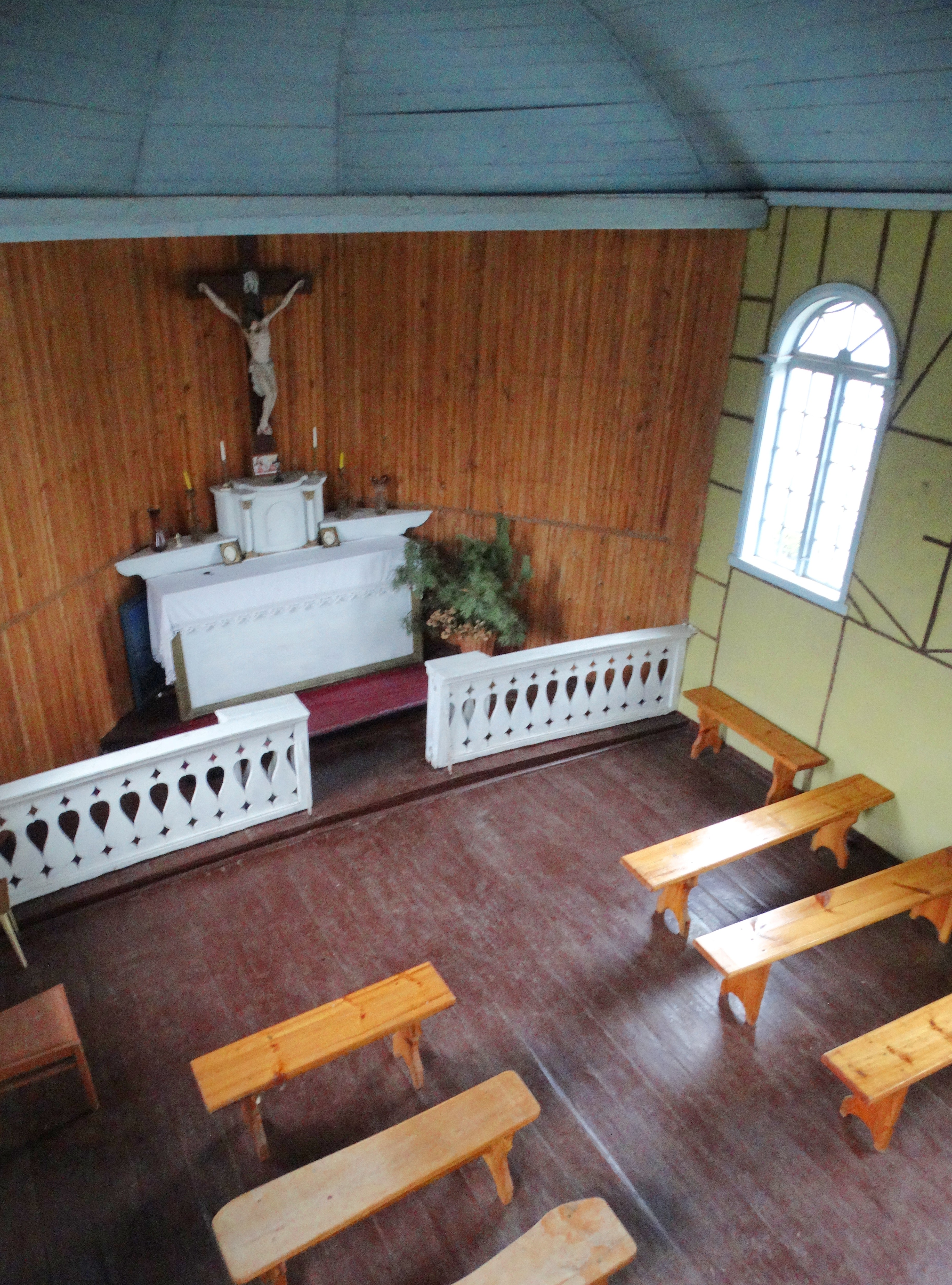 Cemetery chapel in Darbėnai, Kretinga District, Lithuania